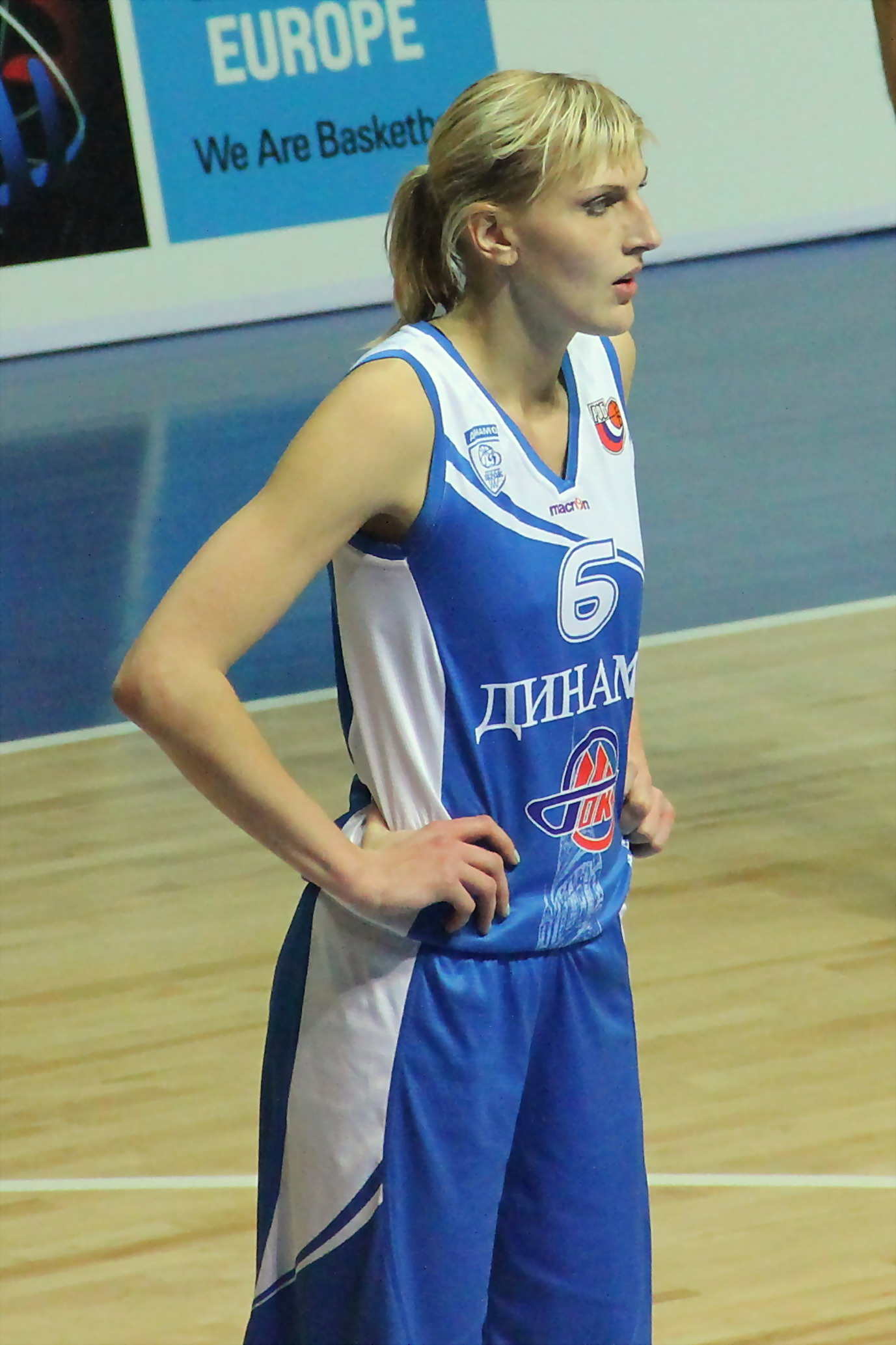 Russia, Vologda, Natalia Vodopyanova in game «Vologda-Chevakata» vs «Dinamo» (Kursk)